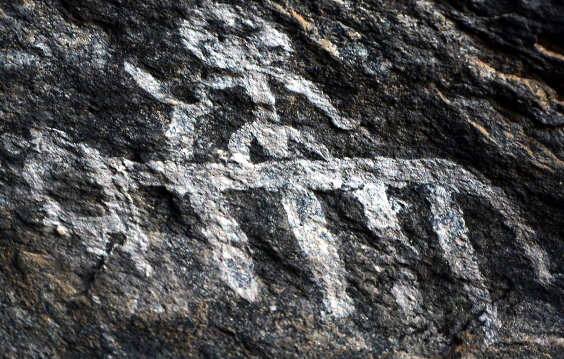 Approximated two millennium old Paintings found near Palani in Indian state of Tamil Nadu.